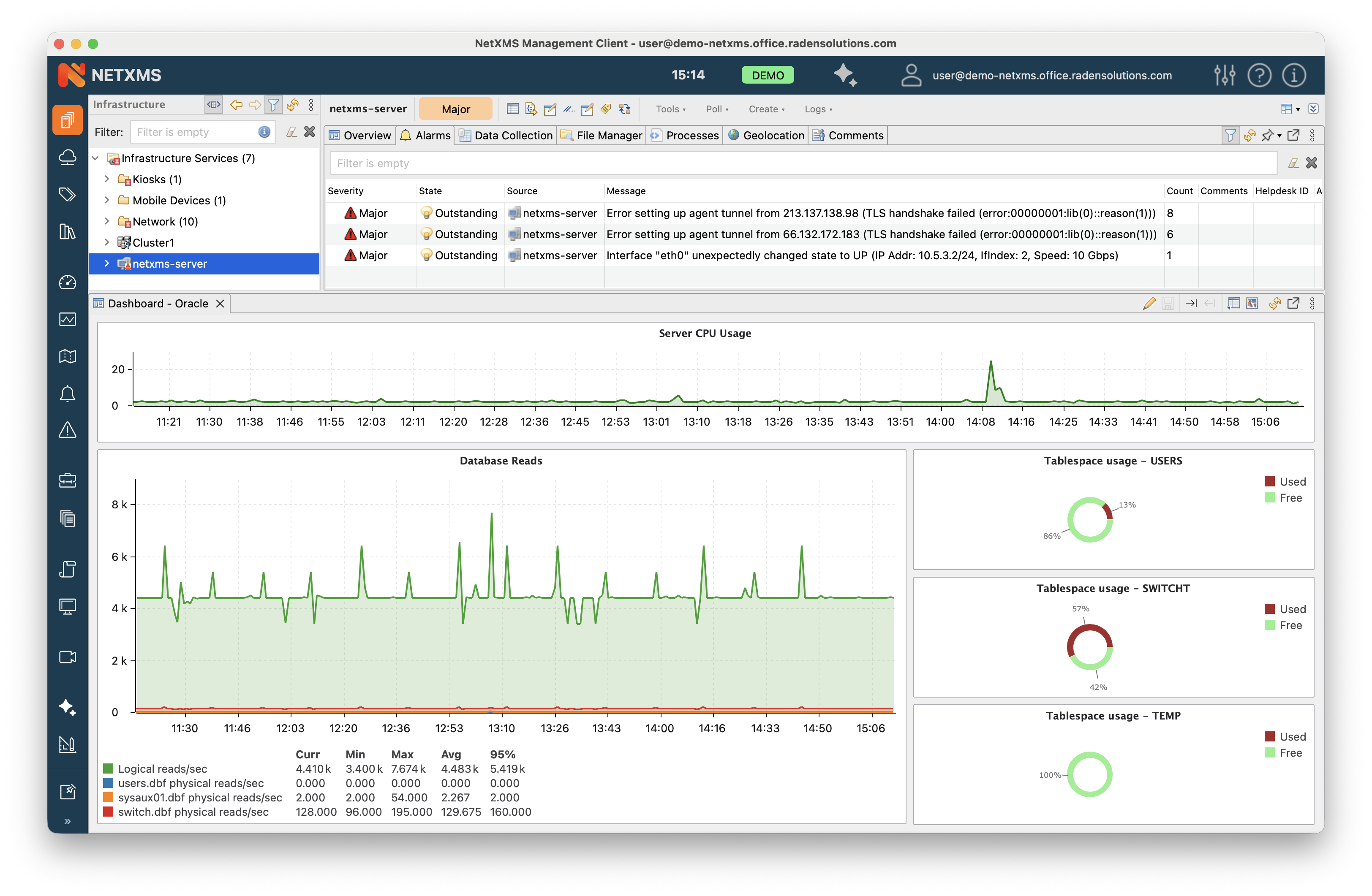 NetXMS User interface